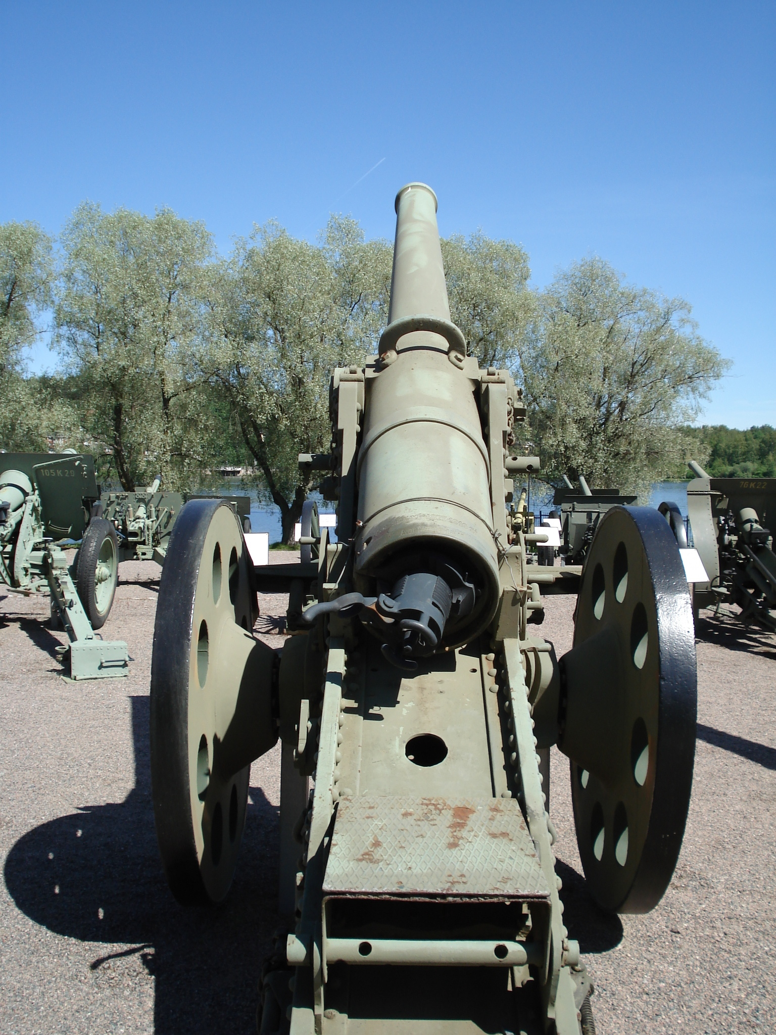 French 155 mm model 1877 cannon, displayed in Hämeenlinna Artillery Museum. Photo taken on June 18, 2006. Source: Photo by me, User:Balcer.